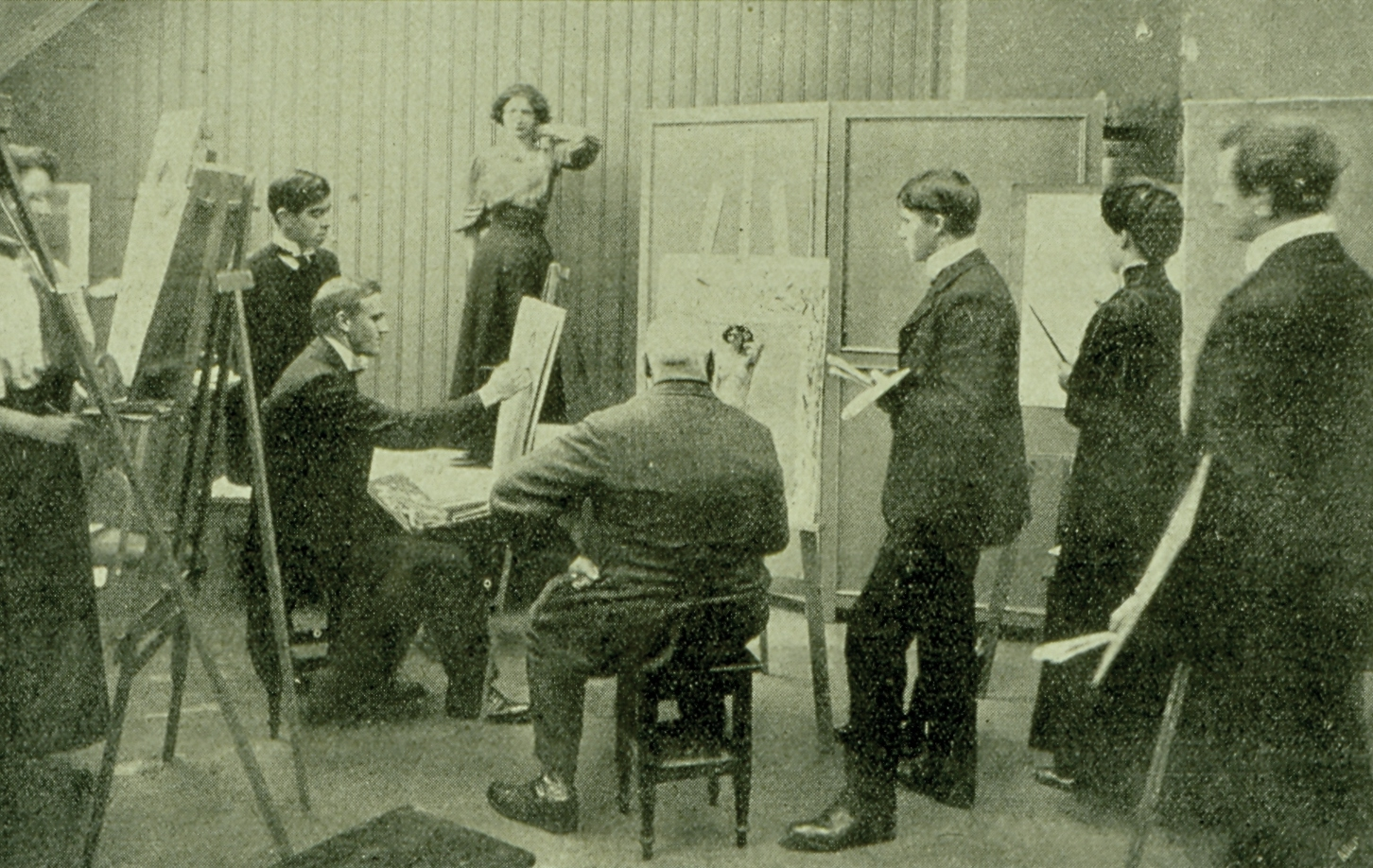 academy.jpg